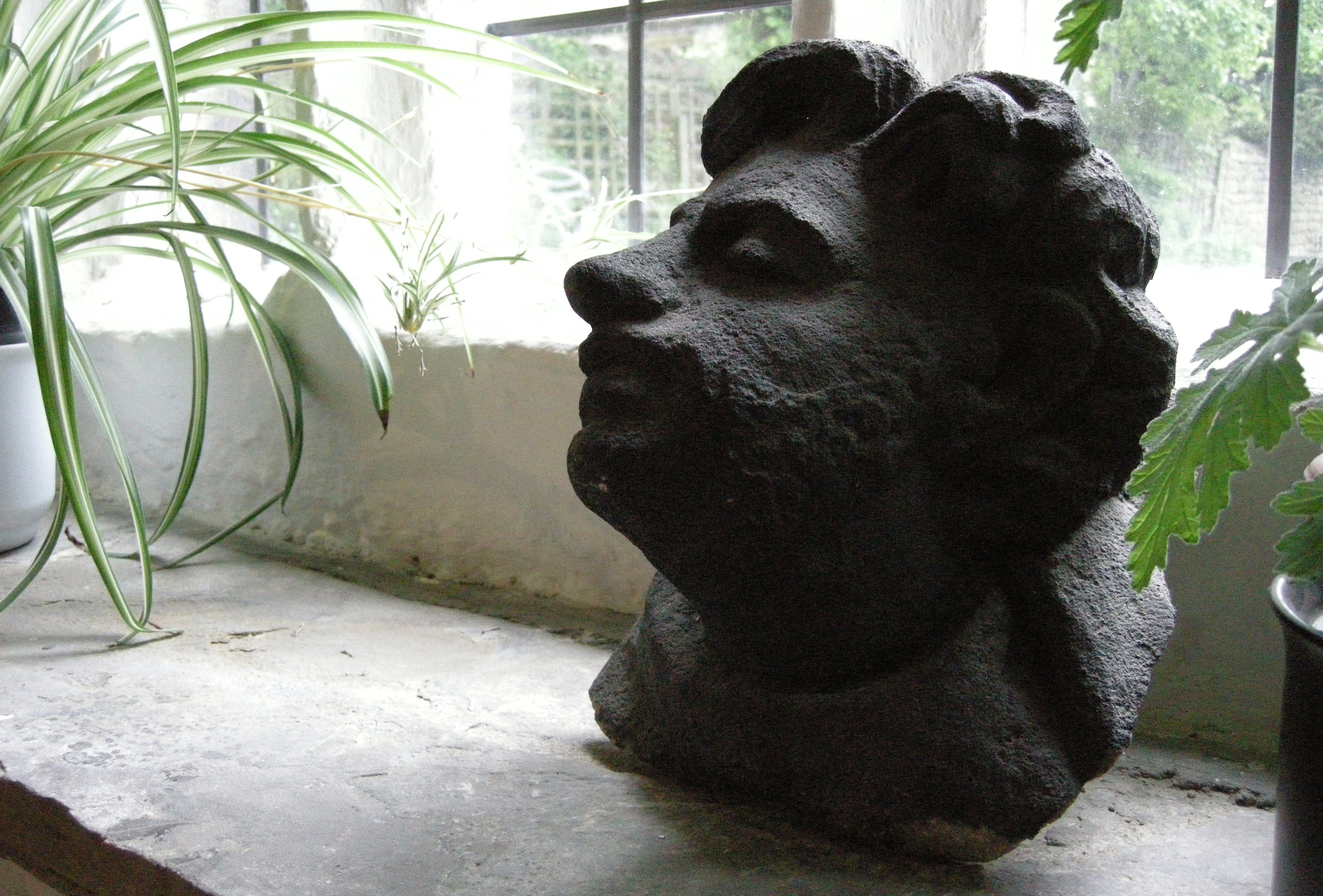 Smoke-blackened sandstone head, possibly medieval or maybe Victorian. In Manor House Museum, Ilkley.